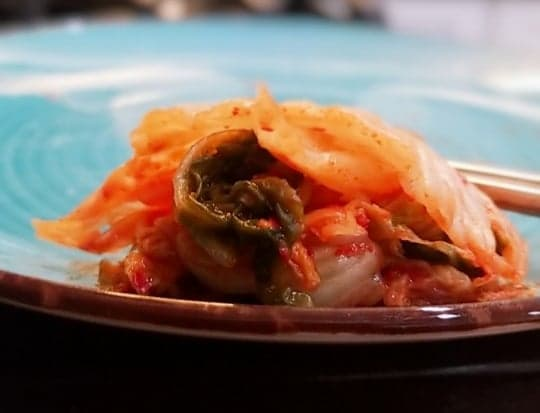 Korean Cabbage Kimchi; a staple food in Korean Cuisine which has become globally recognized in part due to the spread of Hallyu